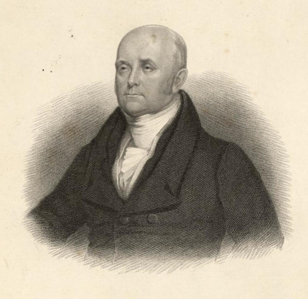 A portrait from the Welsh Portrait Collection at the National Library of Wales. Depicted person: Jacob Perkins – American scientist